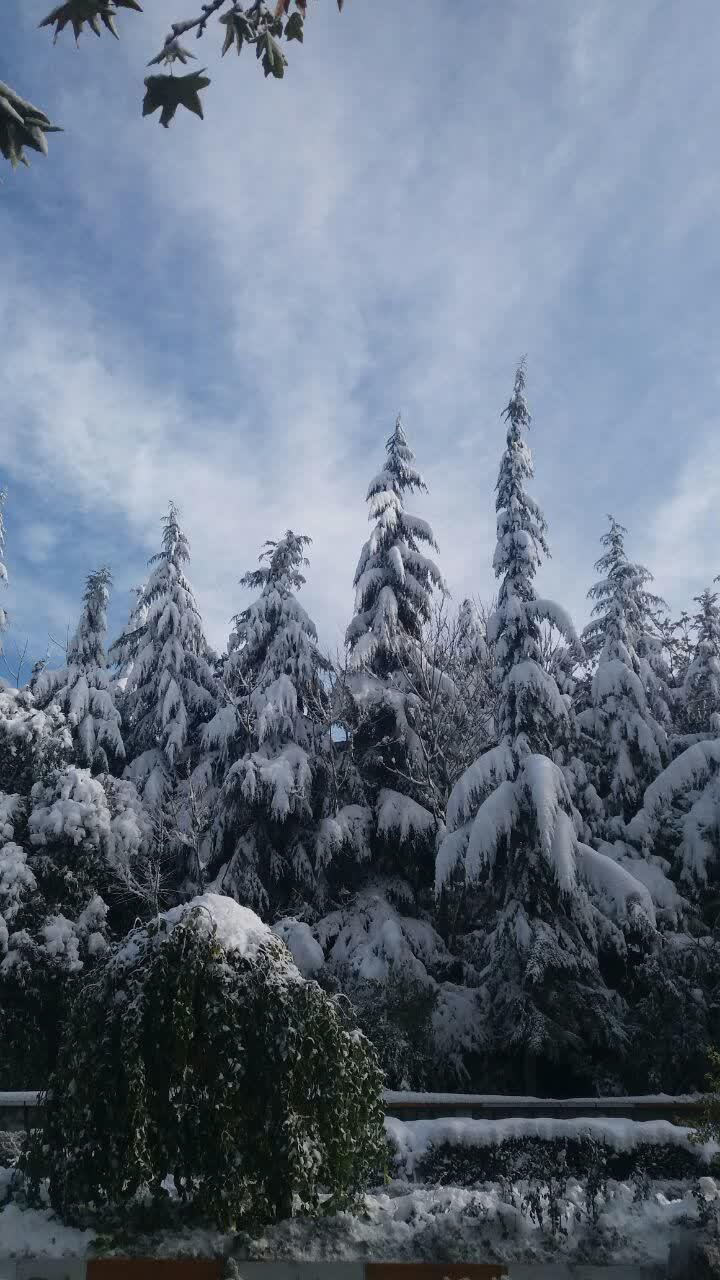 Row of pines in autumn in Tehran